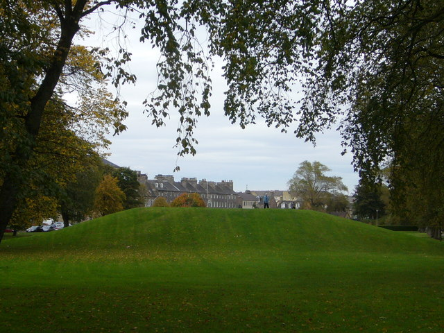 Earthworks, Leith Links